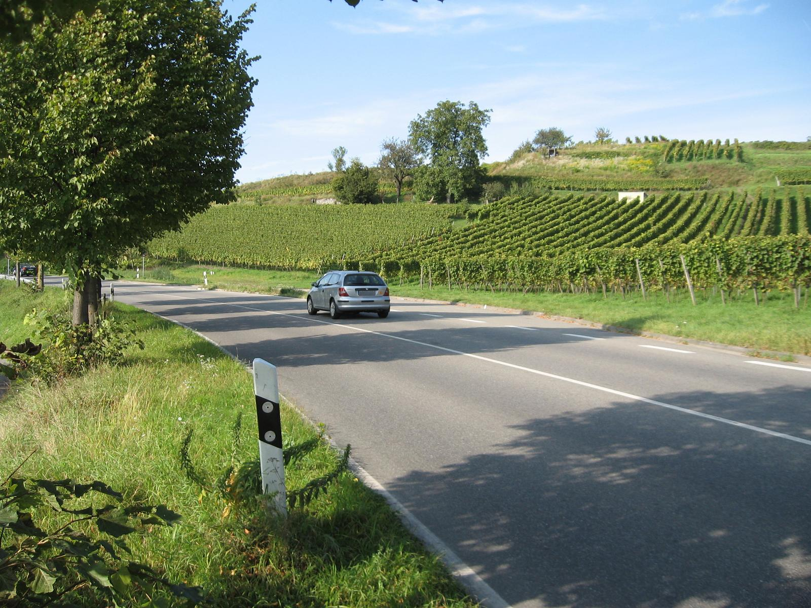 Germany / Hesse: mountain street near Heppenheim